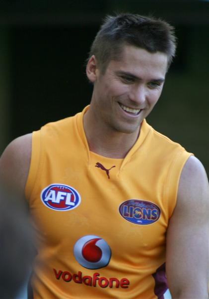 Simon Black at a Brisbane Lions public training session in 2008. The Gabba, Brisbane, QLD, Australia.